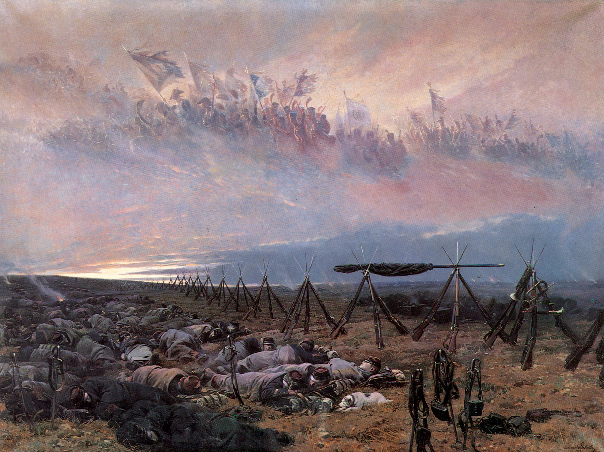 Soldiers of the French Third Republic dream of the glory of their predecessors.